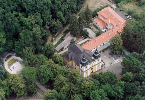 Mátraverebély, Hungary, aerialphotography